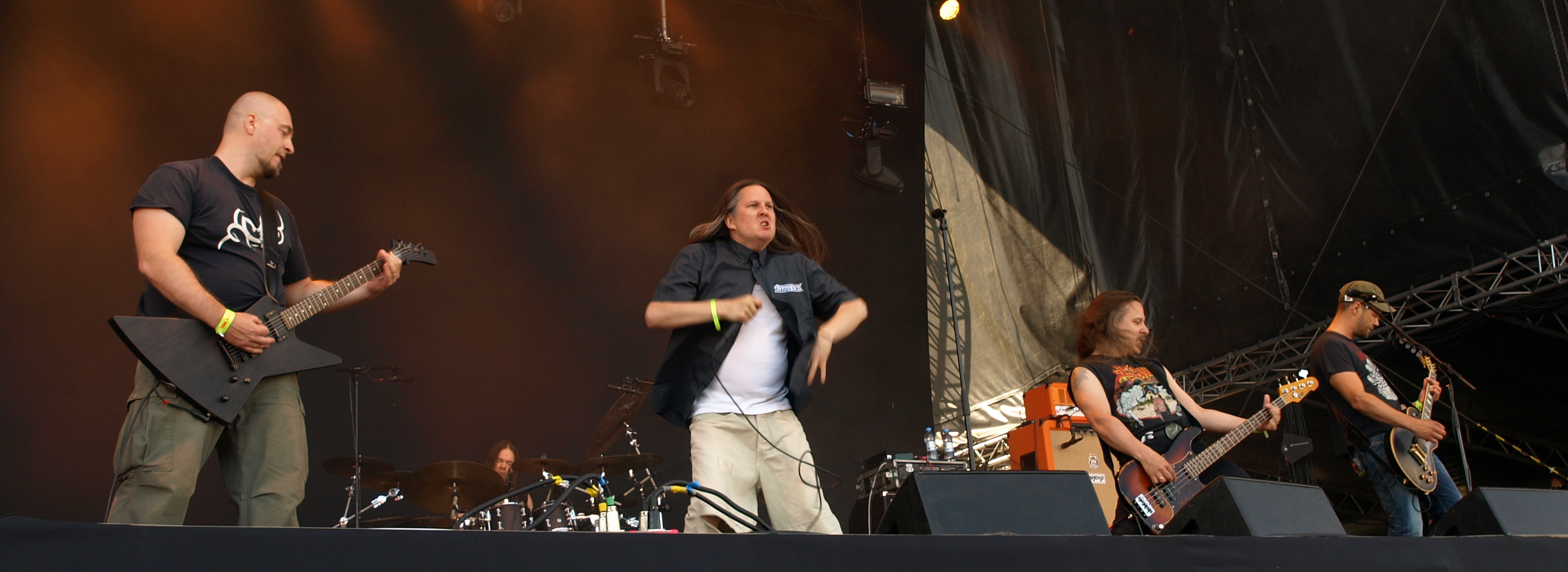 Freshly reunited Finnish death metal band Abhorrence live at Tuska Open Air2013